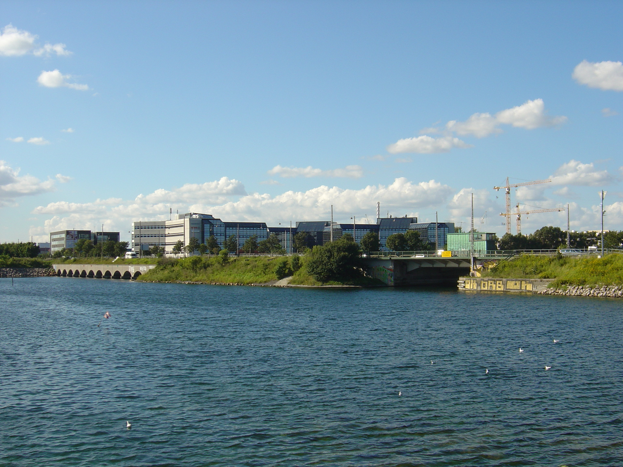 Sjællandsbroen - A bridge in Copenhagen connecting Zealand and Amager. Seen from the southeast side on Amager.